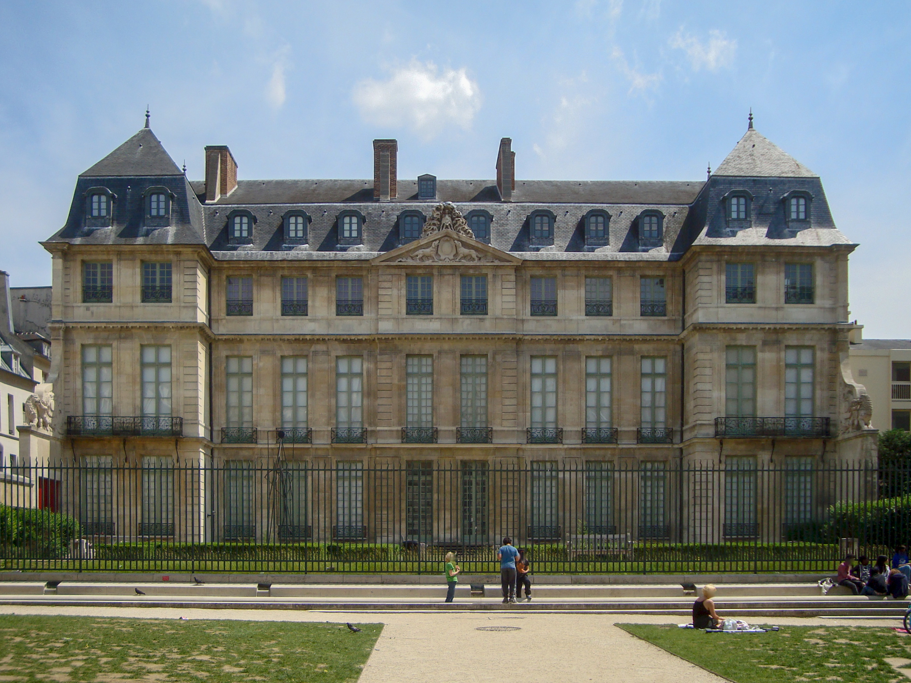 Backside of the Hôtel Salé hosting the Musée Picasso in Paris